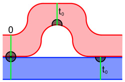 Illustration of a discontious flow